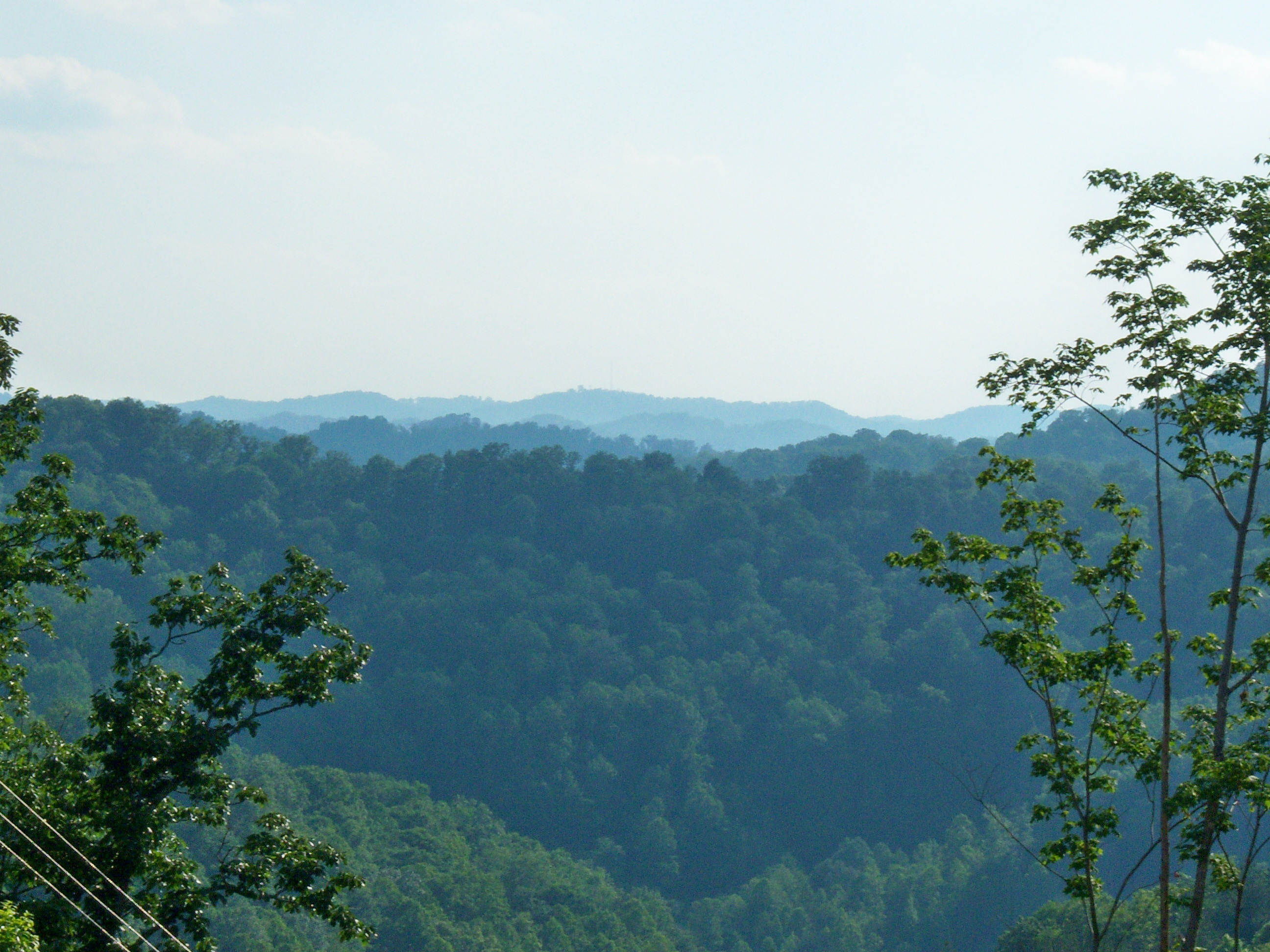 A mountain top view of Johnson County. This picture was shot at an abandoned surface mine in Tutor Key.